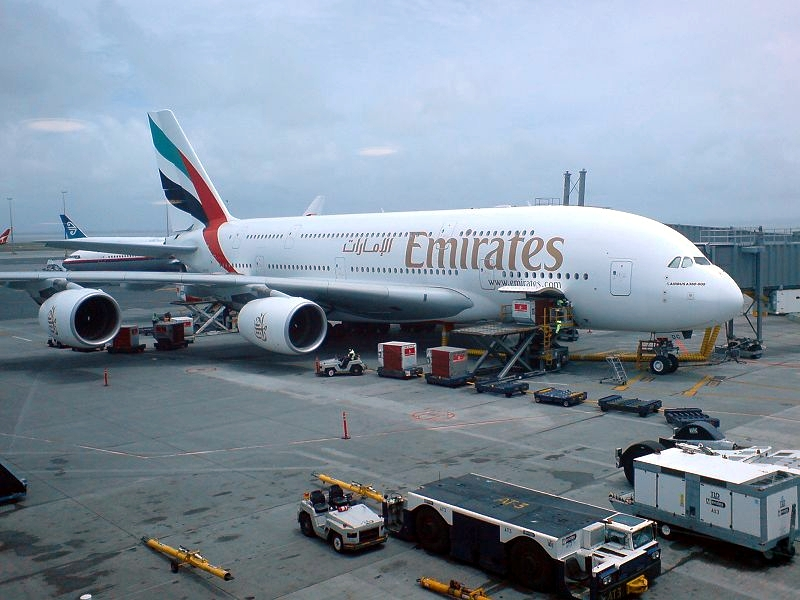 An Emirates A380 aircraft seen at Auckland Airport, New Zealand.